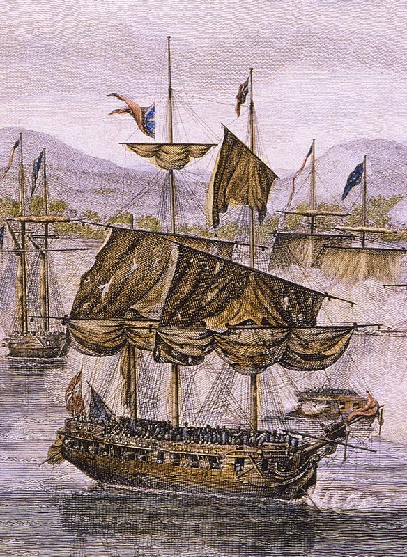 Macdonough’s victory on Lake Champlain and defeat of the British Army at Plattsburg by Genl. Macomb, Sept. 11 1814. Engraverː Benjamin Tanner, after painting by Hugh Reinagle. Lake Champlain Maritime Museum Collection